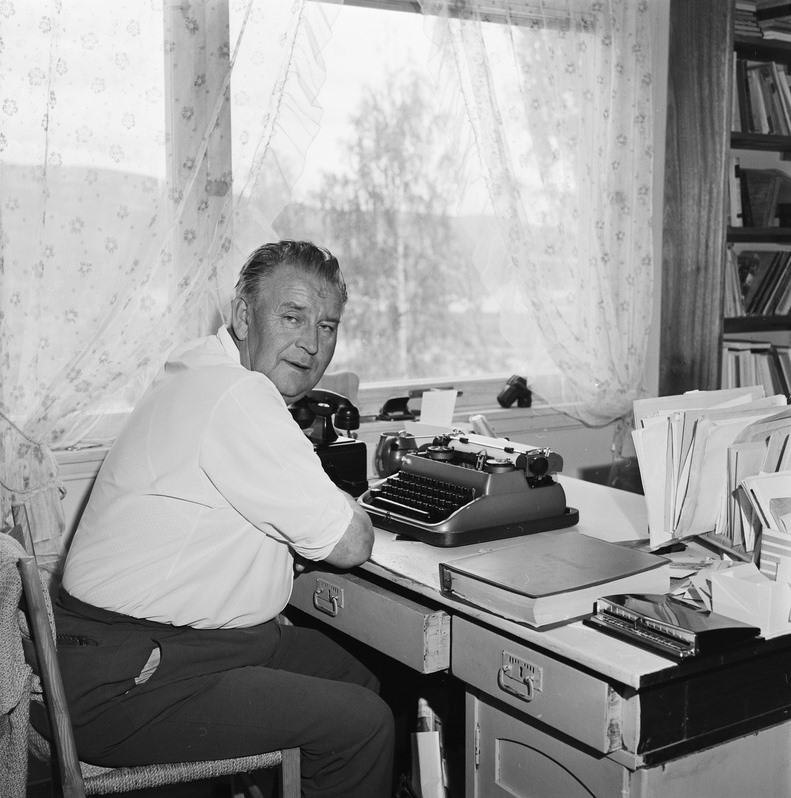 Norwegian author and artist Alf Prøysen at home in Nittedal 1964